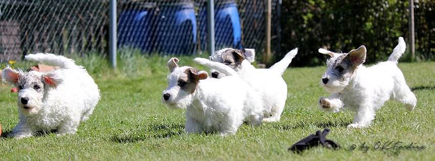 Sealyham Terrier Puppies